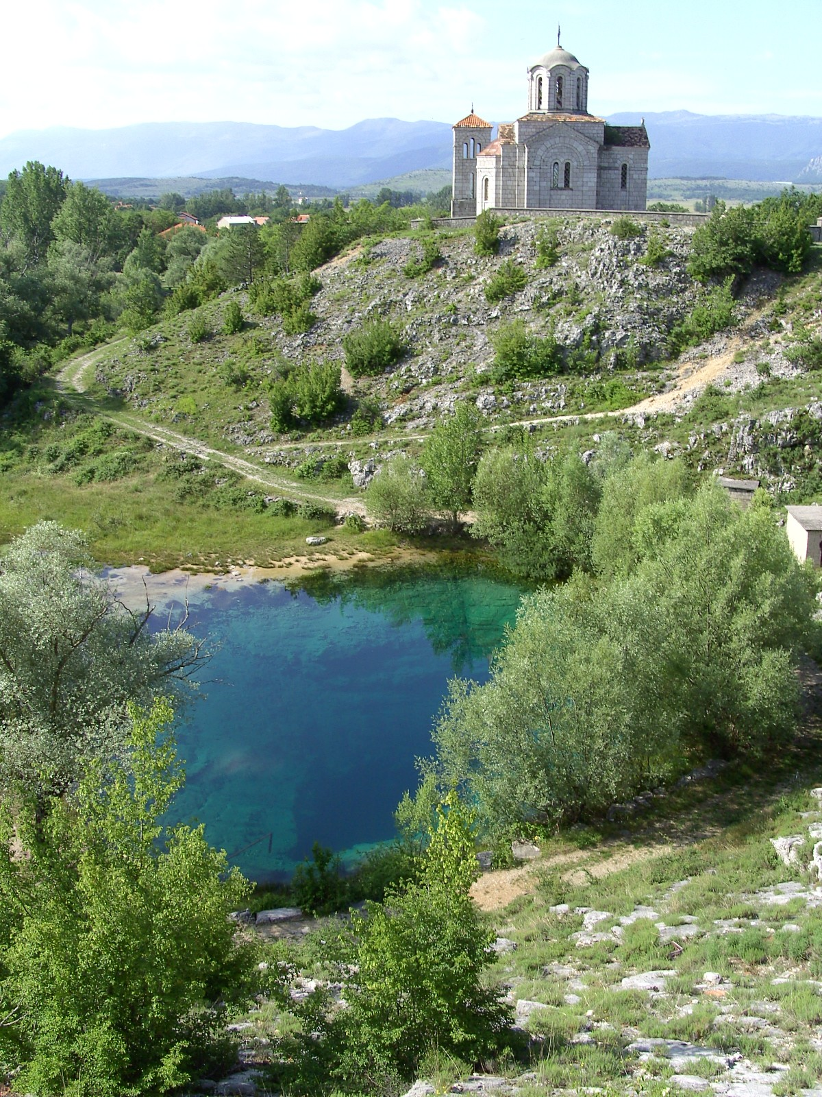 karst spring of river Cetina, Croatia